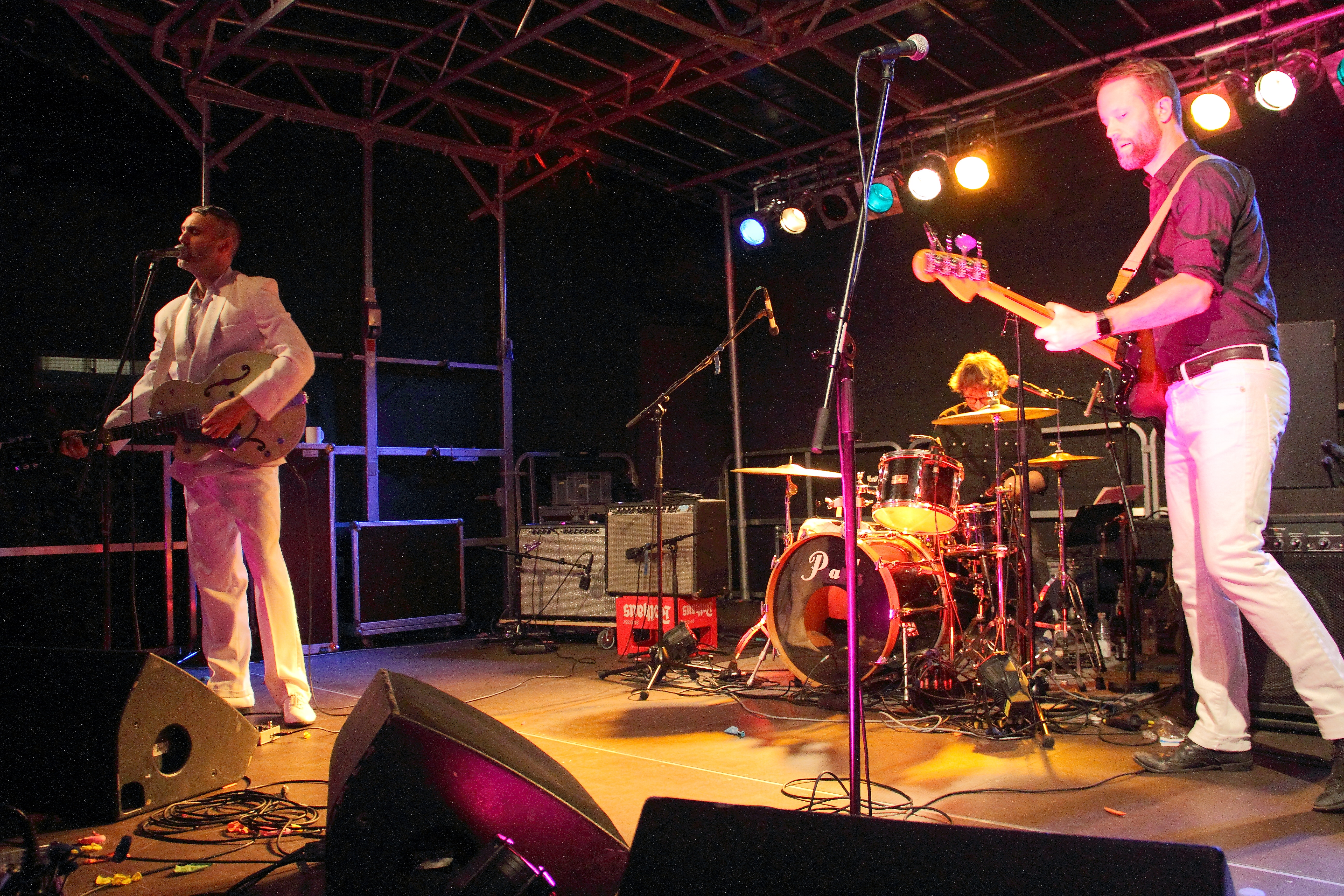 The Hidden Cameras in concert at the summer festival on the occasion of 50th anniversary of Manufaktur Schorndorf.